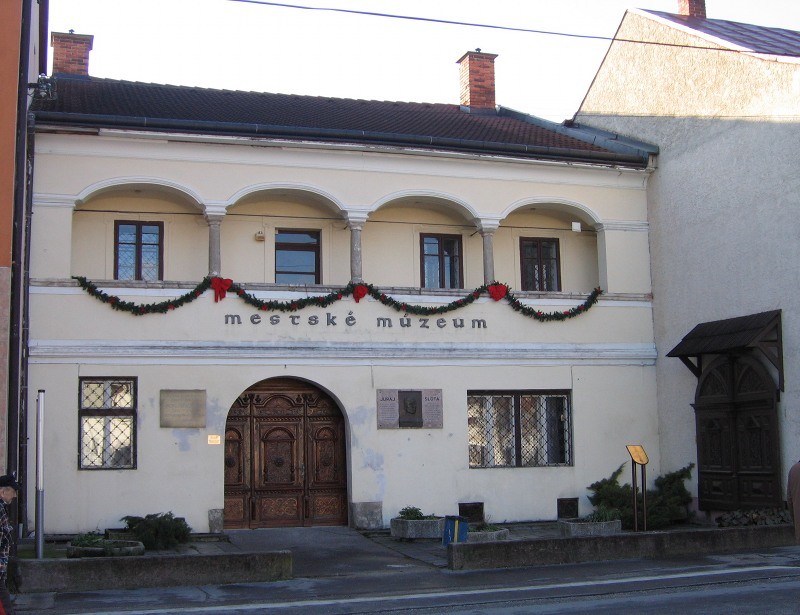 City museum Rajec, Slovakia